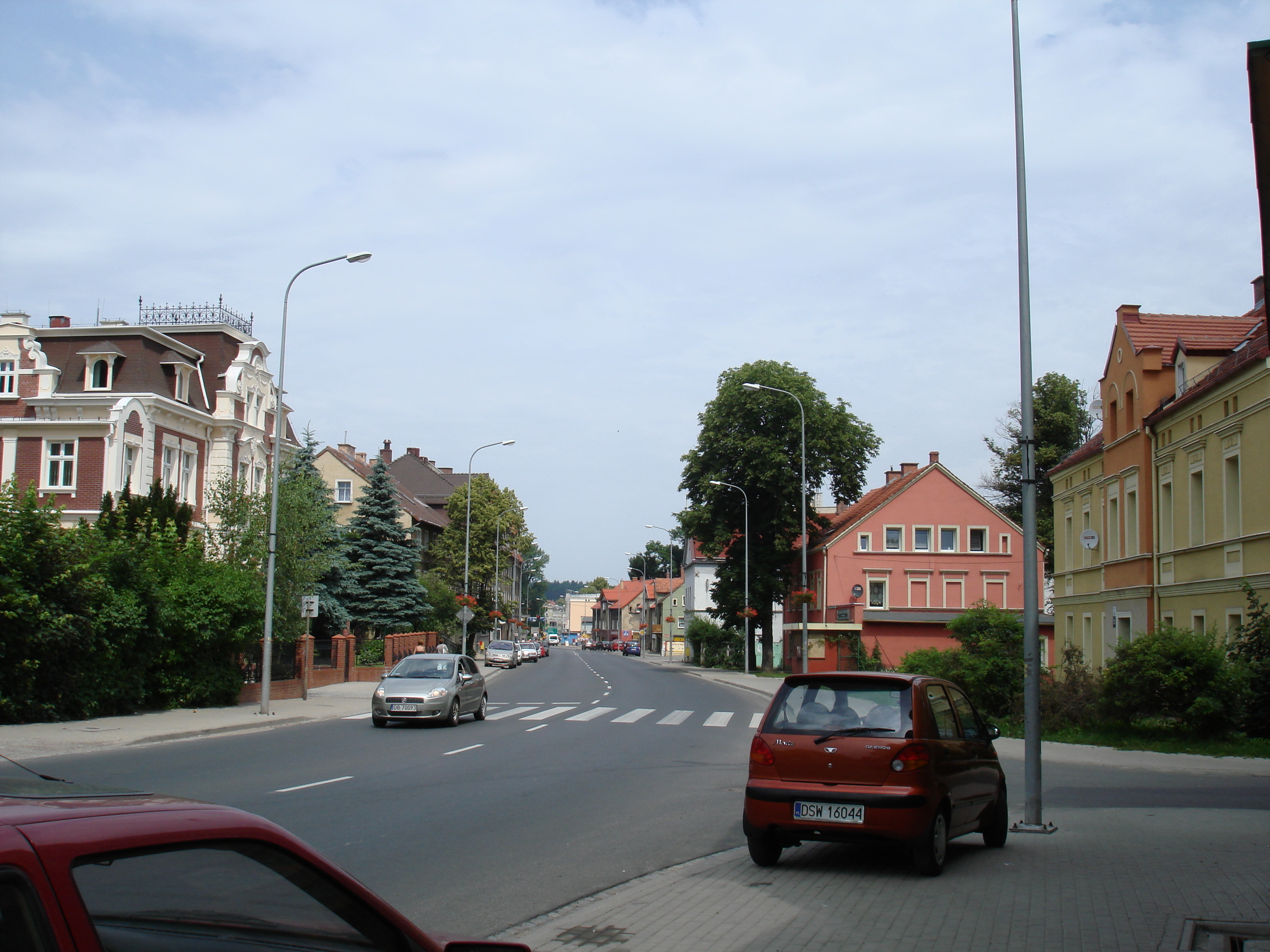 Main Street in the Center of Biały Kamień. The camera stand point is a bit north of St. George's, and the view is towards north.